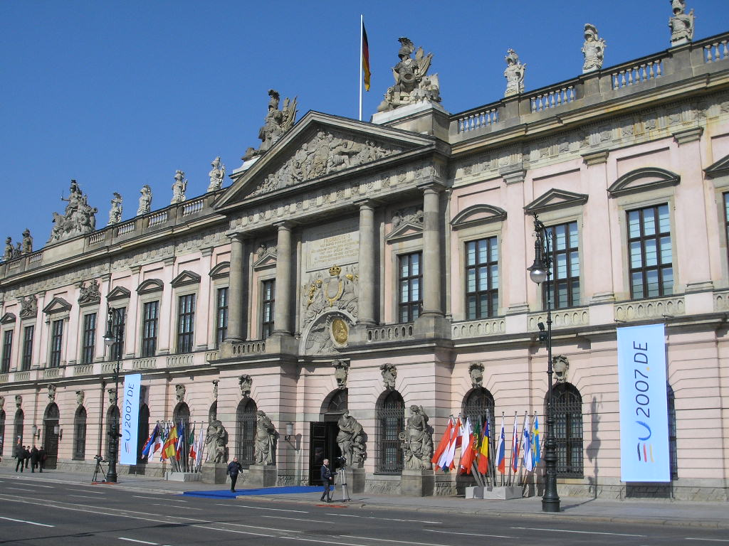 Image of the Zeughaus in Berlin.